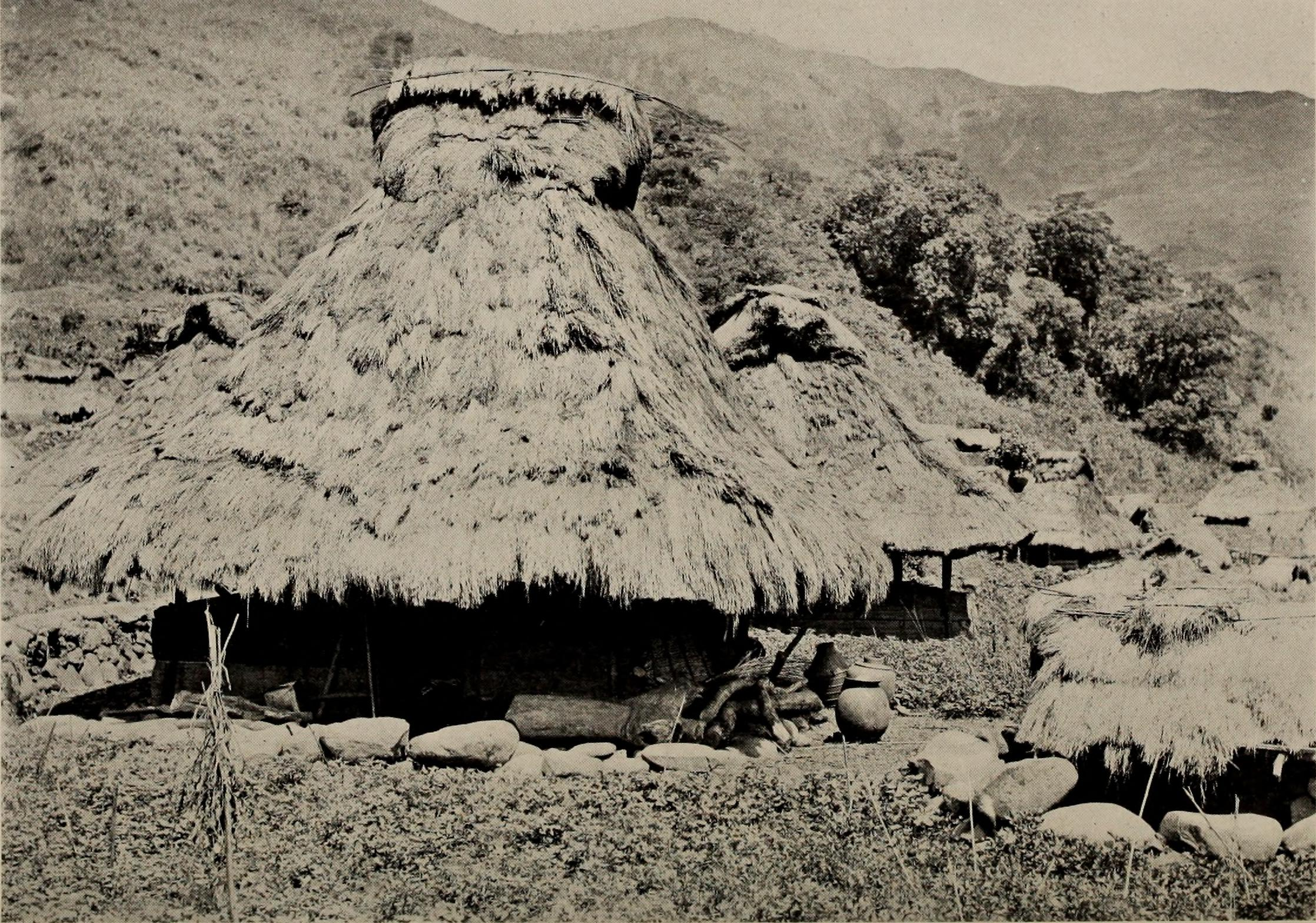 "BONTOC HOUSES" Title: University of California publications in American archaeology and ethnology Year: 1903 (1900s) Authors: University of California (1868-1952) University of California (1868-1952) Publications in American archaeology and ethnology Subjects: Indians Indians of North America Publisher: Berkeley University of California Press Text Appearing Before Image: PLATE 9 The room proper of the Bontoc house is above the level of the eaves. It rests on piles. It is used only as a granary and storeroom. Beneath this room and protected from the inclemency of the weather by two or three planks one each side the family cooks and eats. At one corner of this space beneath the house proper is a tight box in which husband, wife, and baby, if there be one, sleep. The other children sleep in the dormitories of the unmarried. Note the sweet-potato patches all about the house. Sharpened reeds are stuck up in these to impale the serpent eagle should he swoop down upon the chickens. (144) Text Appearing After Image: PLATE 10 Note the red flowers above the mans ears, the feathers in his hair, and thegong which is held by a jawbone taken from an enemys head. The womansear-ornaments and the spangles on her skirt are mother-of-pearl. Around herwrists are wrapped strand upon strand of beads. The Kalingas are the wealthiestof the mountain tribes and the fondest of ornaments. (146) UNIV, CALIF. PUBL. AM. ARCH. & ETHN. VOL. 15 (BARTON) PLATE 10